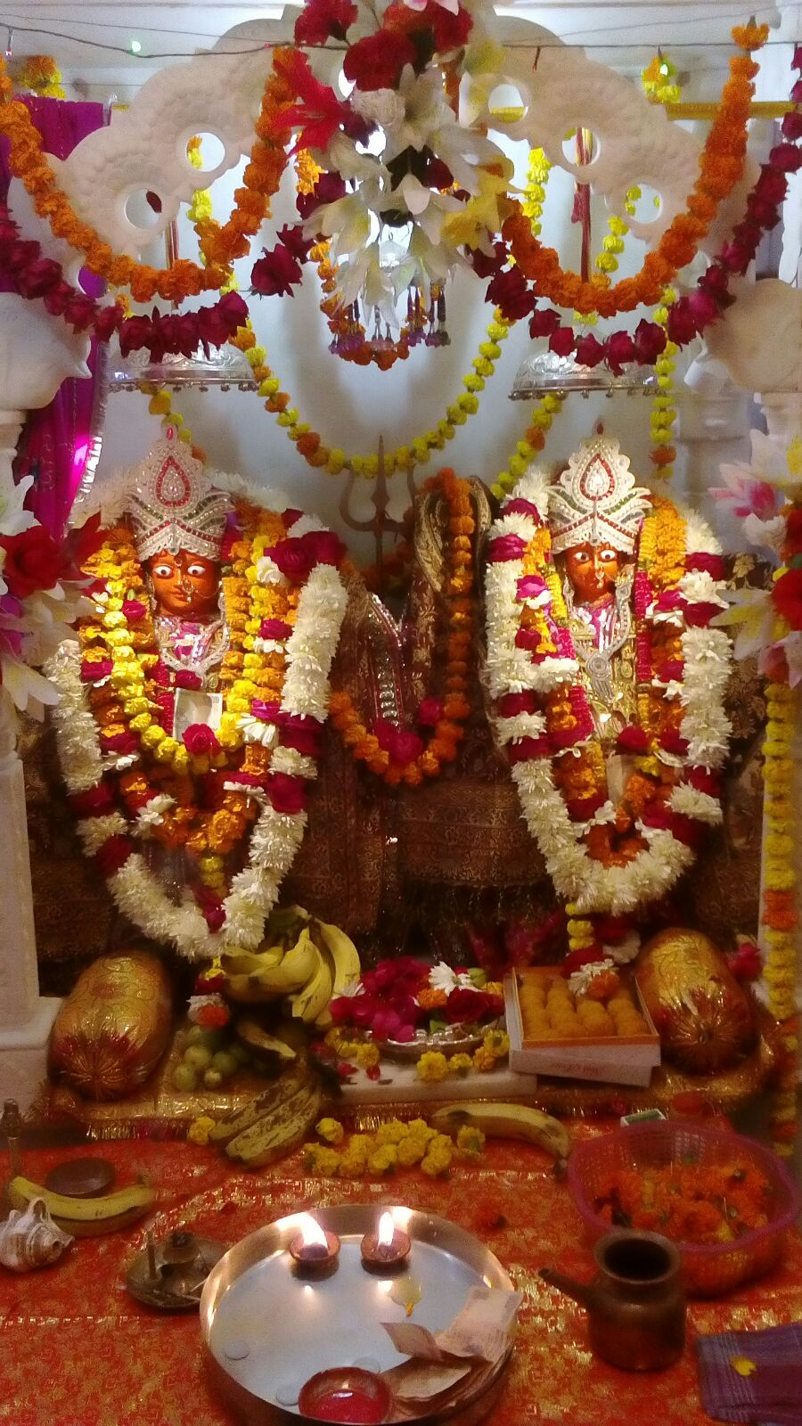 The goddess Shakumbhari incarnate as Brahmani and Rudrani